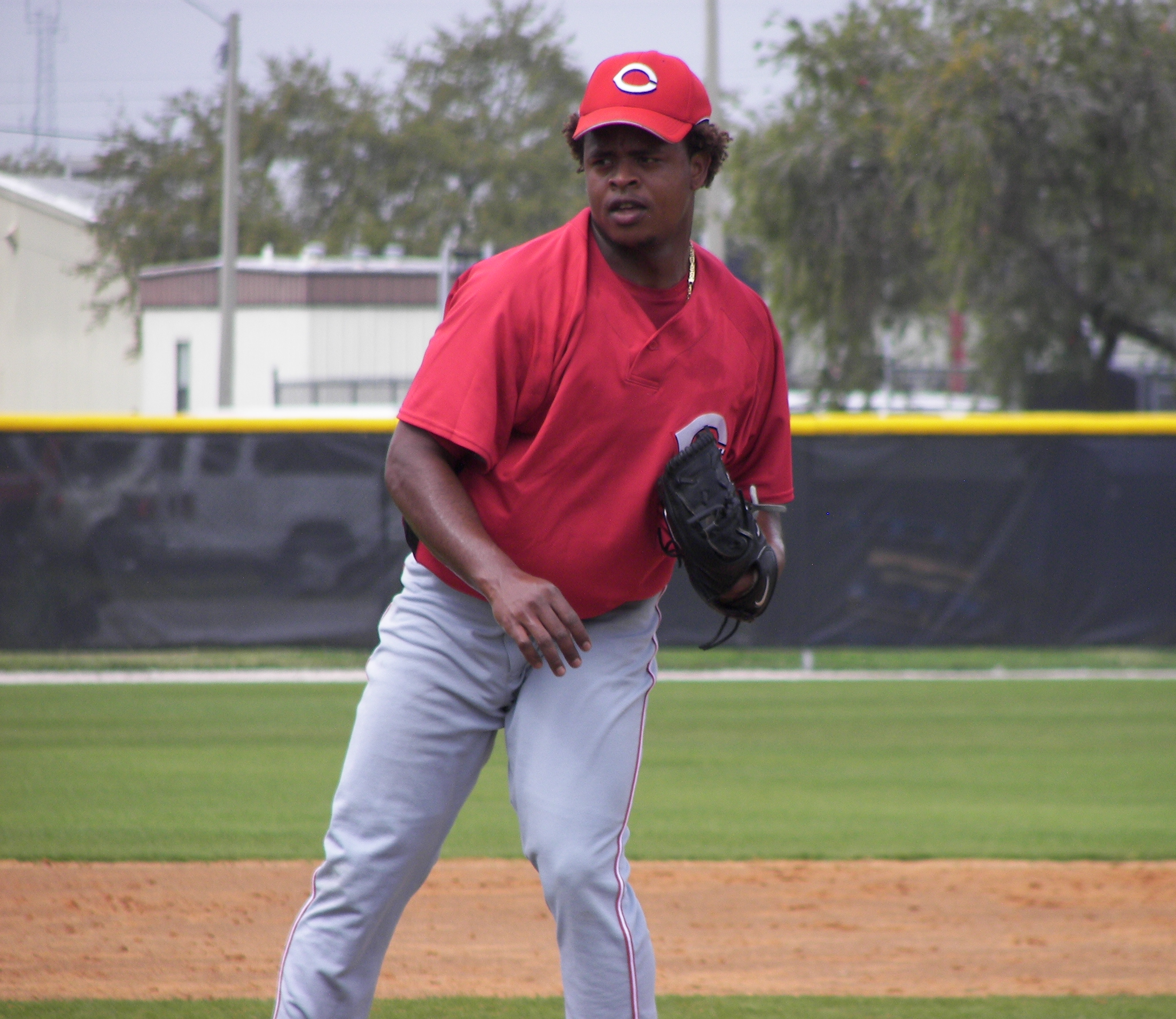 Cincinnati Reds pitcher Edinson Volquez during a Spring Training workout outside Ed Smith Stadium in Sarasota, Florida.